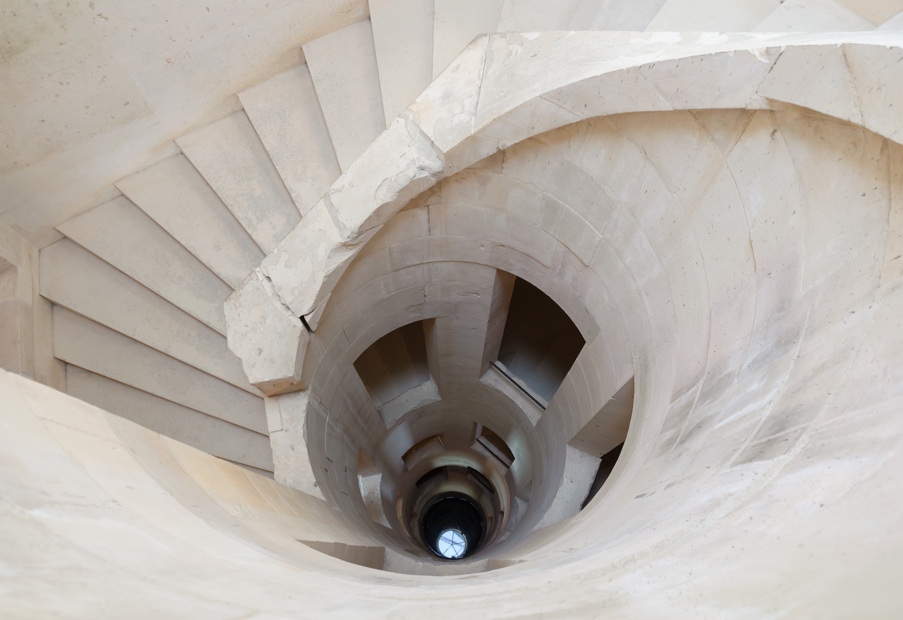 Château de Maulnes in Cruzy-le-Châtel, Burgundy, France: the central helical stairs around the well, also used as a skylight.